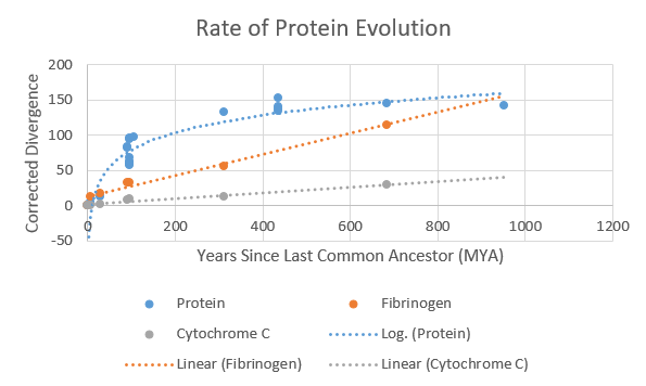 A graph displaying the rate of evolution of C10orf67 relative to Fibrinogen and Cytochrome C